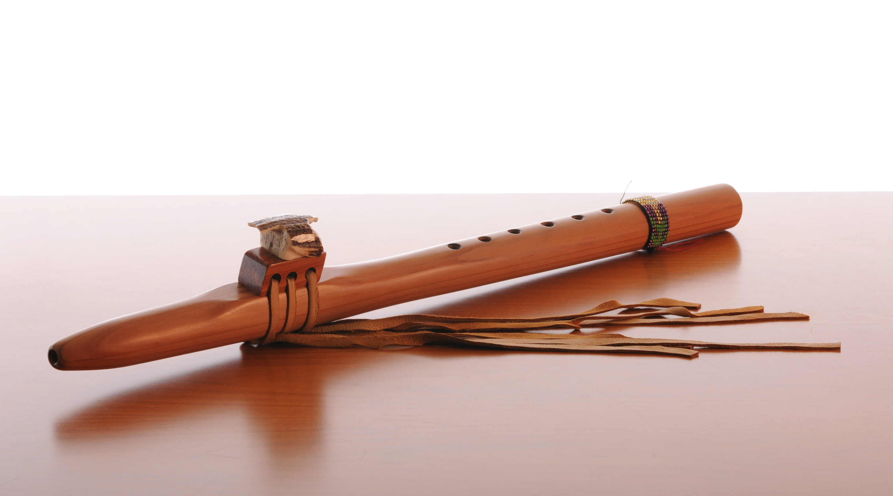 Native american flute